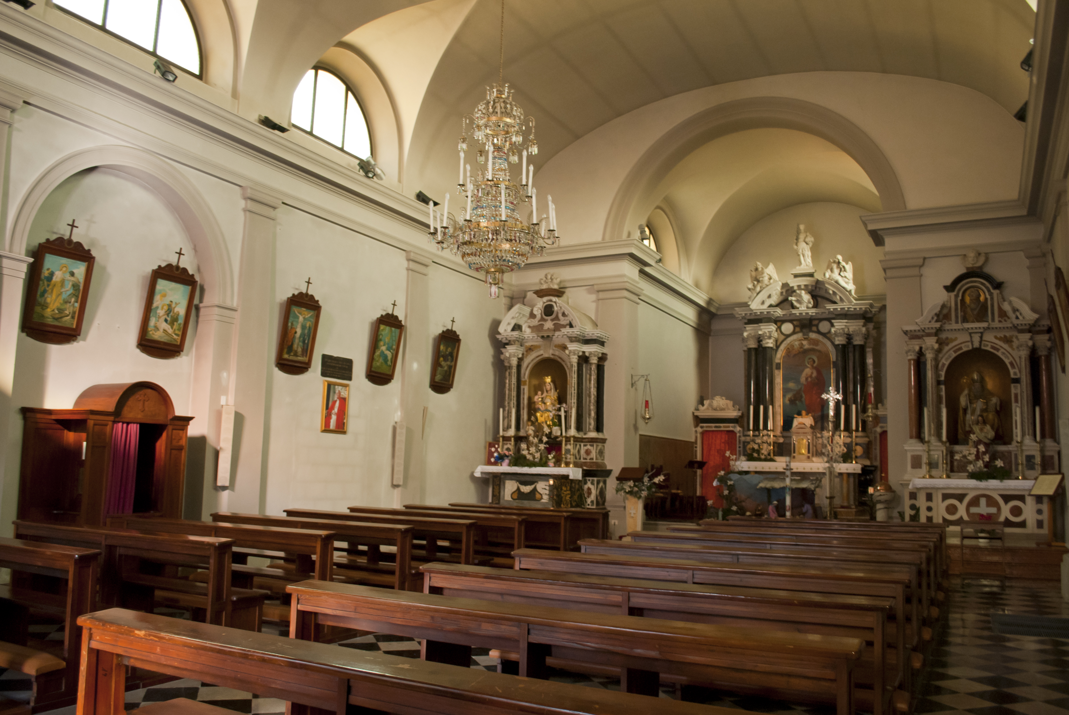 Church san Giusto Martire (interior), Gorizia.